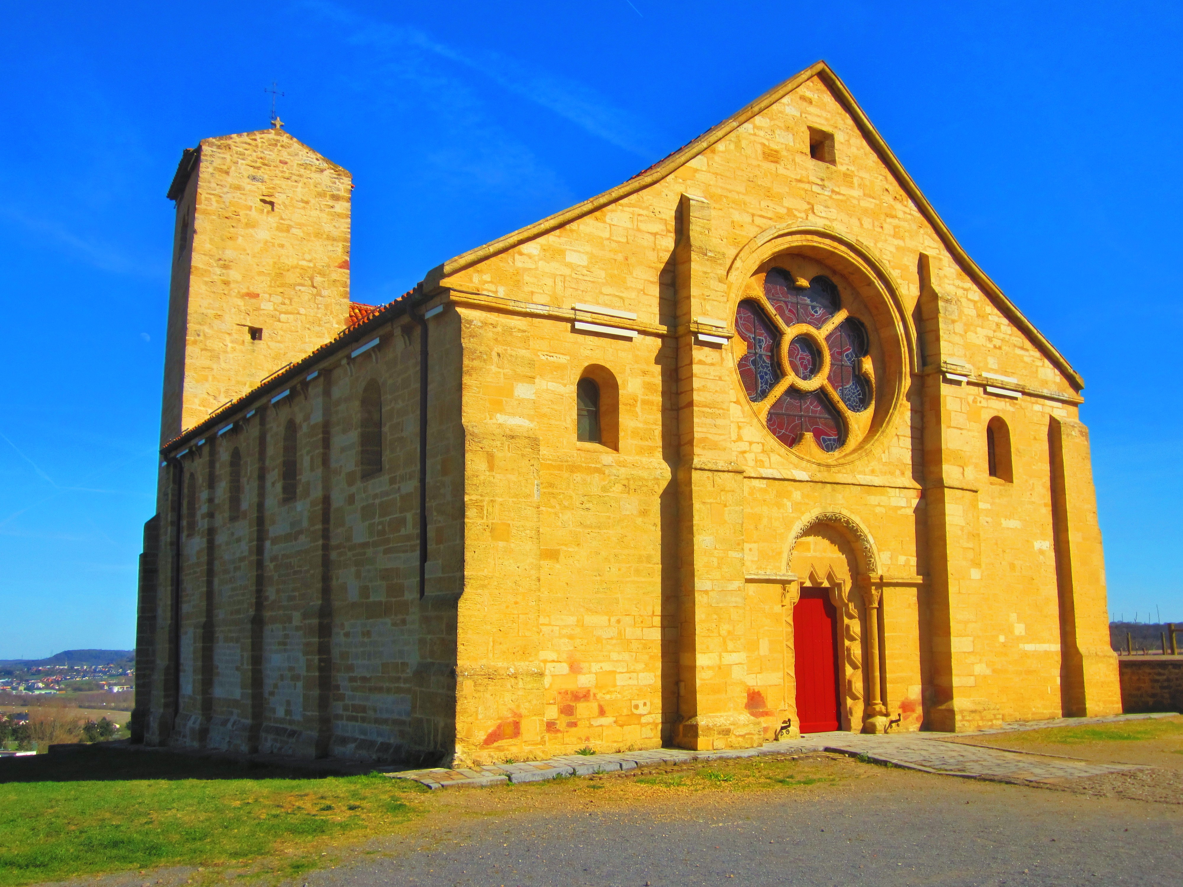 Mont St Martin church prieure